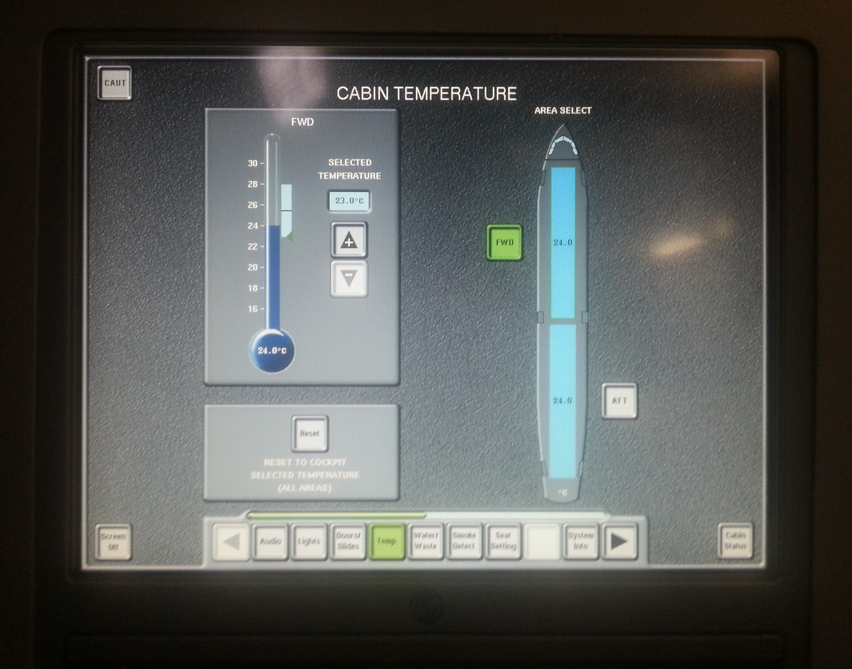 Aircraft cabin control system onboard an Airbus A319 (ALITALIA)